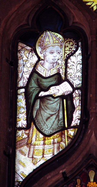 St Mary's church in Great Cressingham - C15 glass